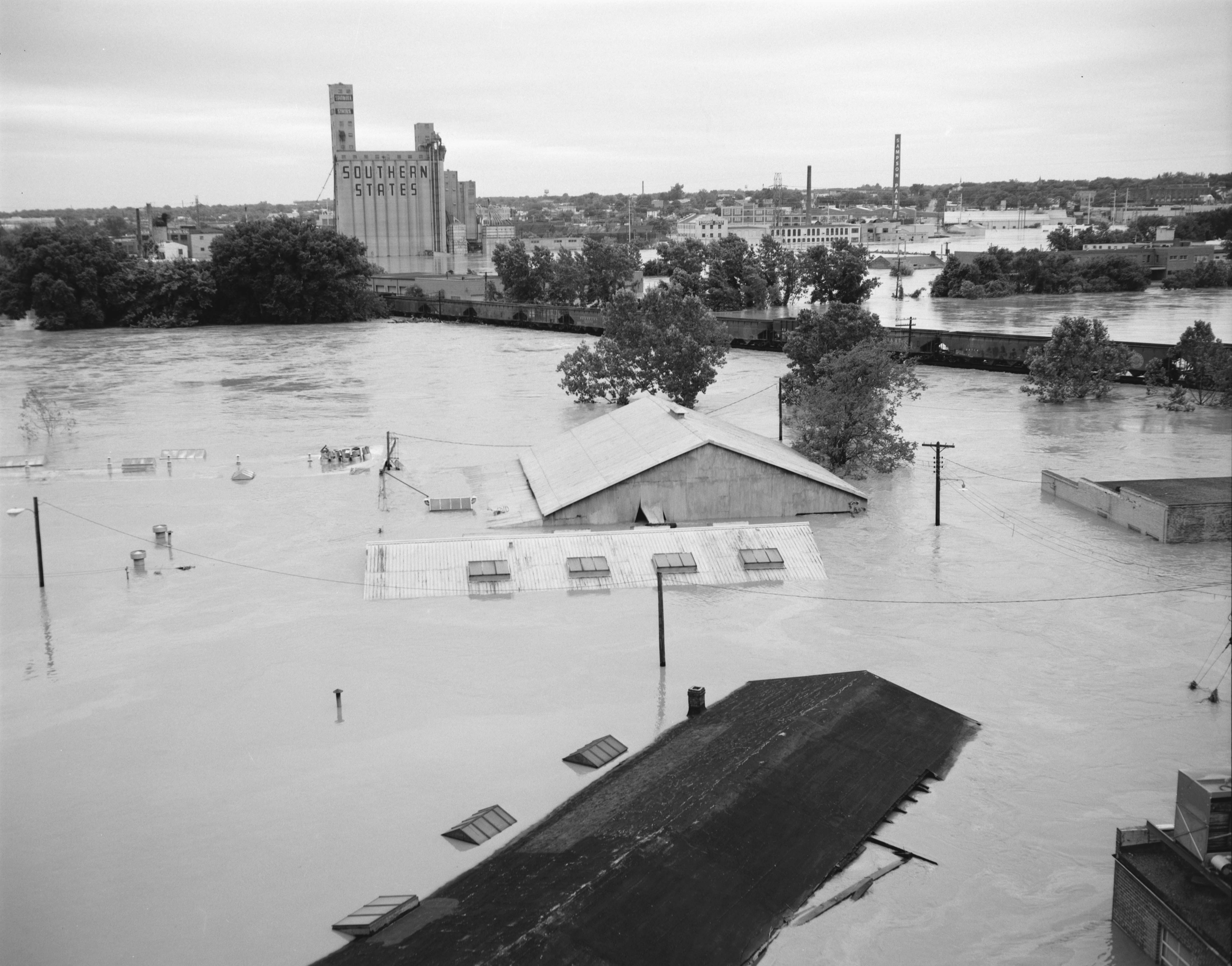 View from I-95 shows several buildings under water in Richmond. No. 72-956, Virginia Governor's Negative Collection, Library of Virginia.